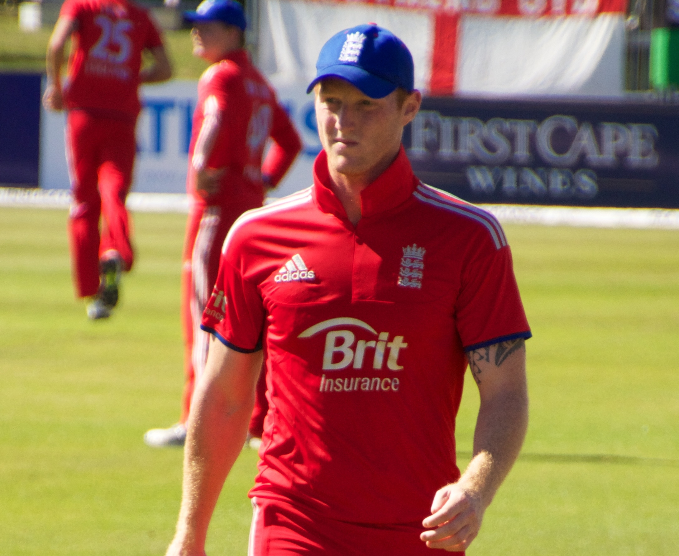 Ben Stokes playing for England during an ODI against Ireland at Malahide Cricket Ground in 2013